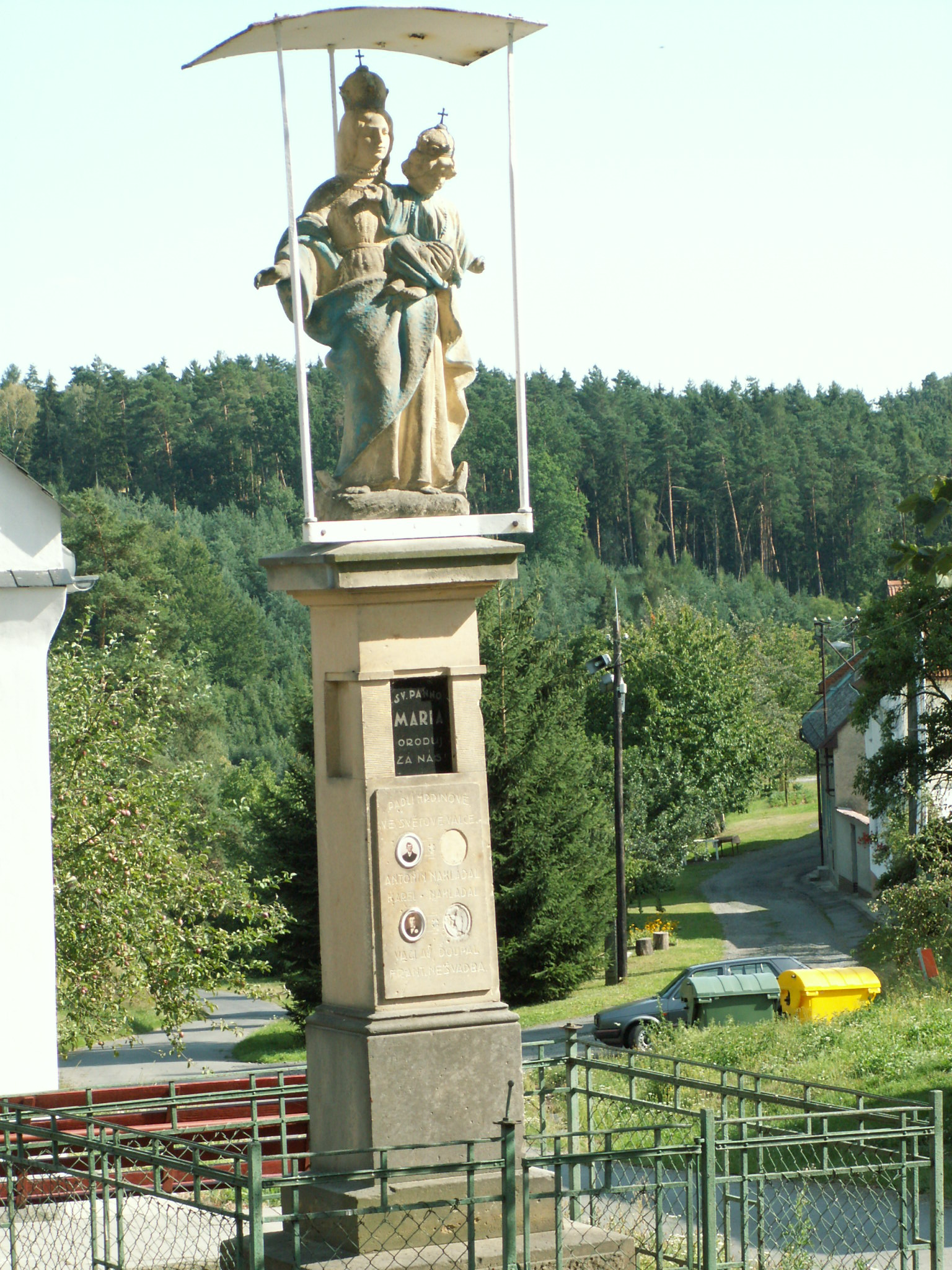 Lhotka (Czech Republic, Prerov District) - Statue of Mary with infant Jesus.